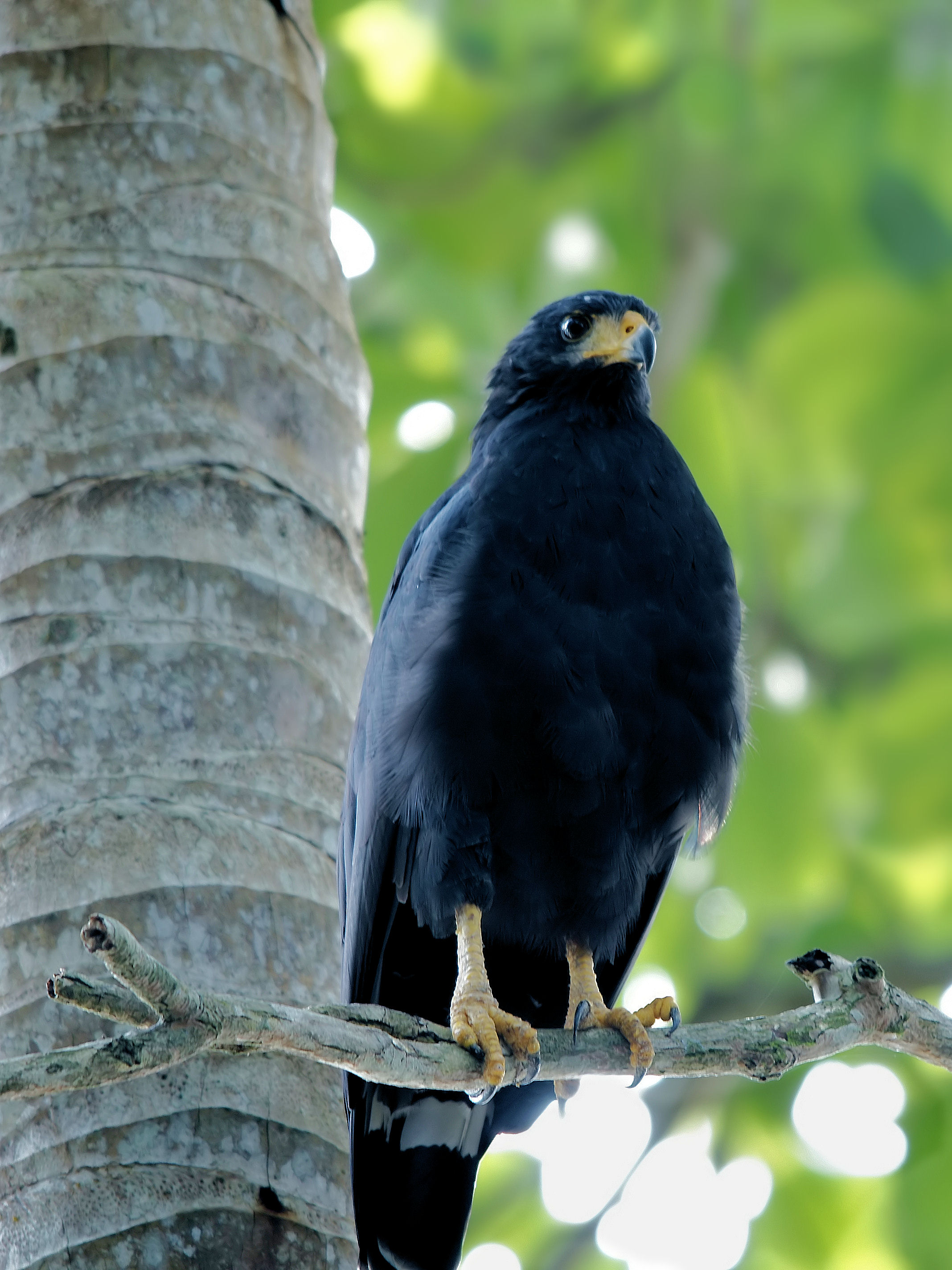 Mangrove Black Hawk at Playa Blanca, Cahuita, Costa Rica.